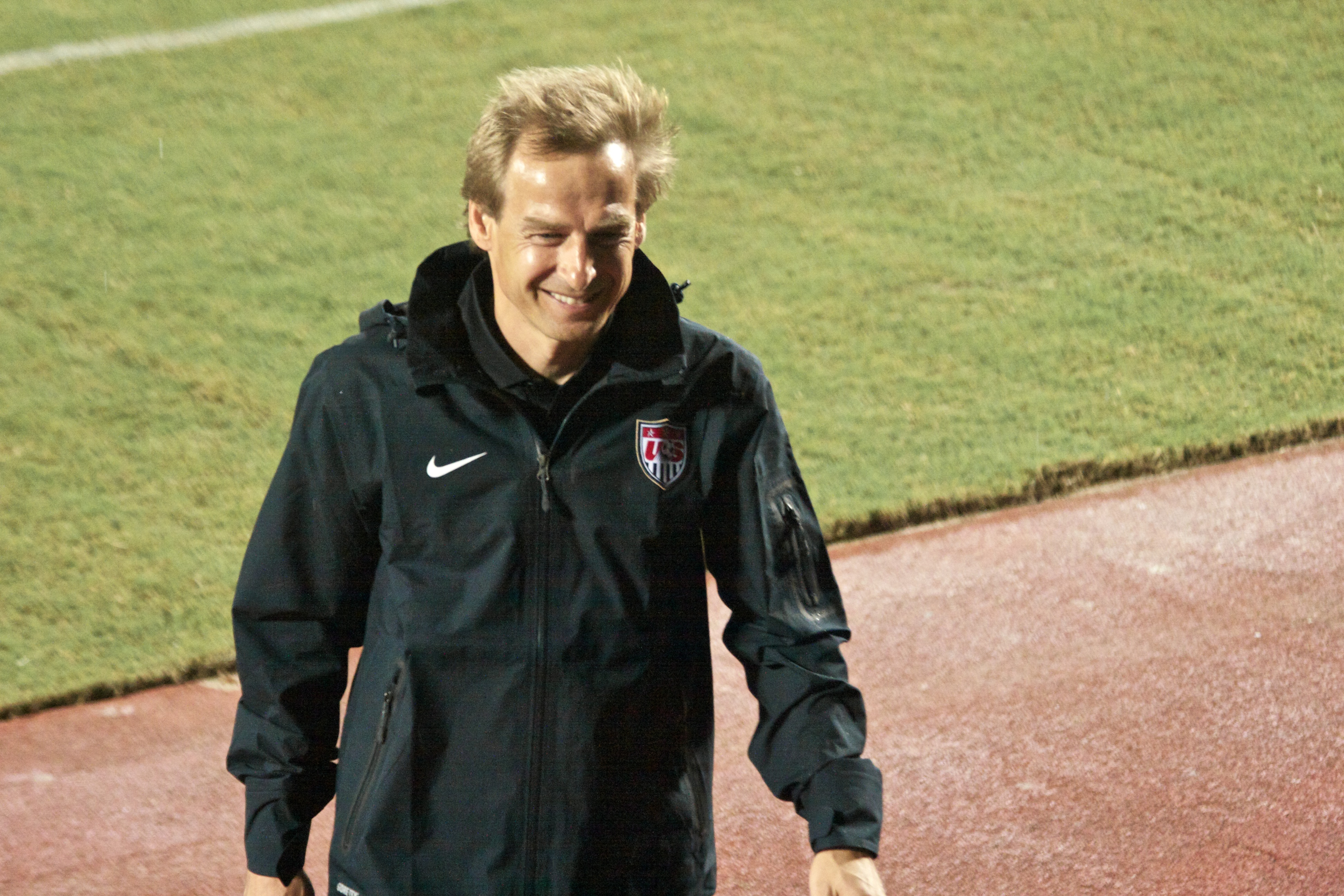 USA - Honduras 18